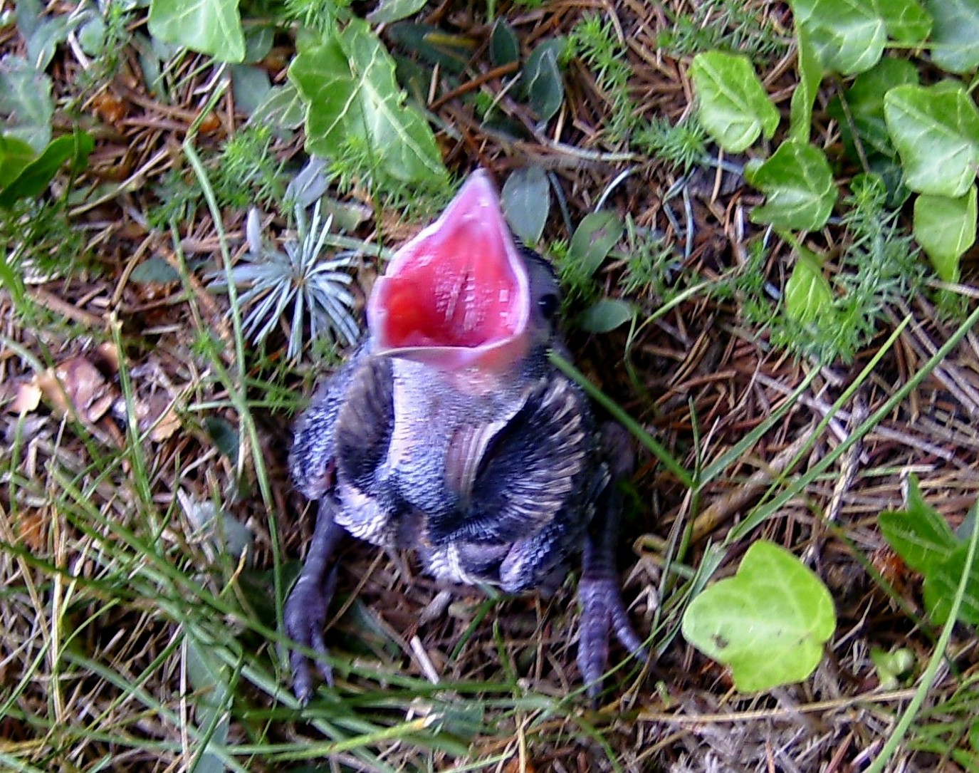 Pica pica